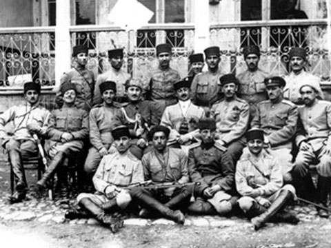 Historical photos of Azerbaijani